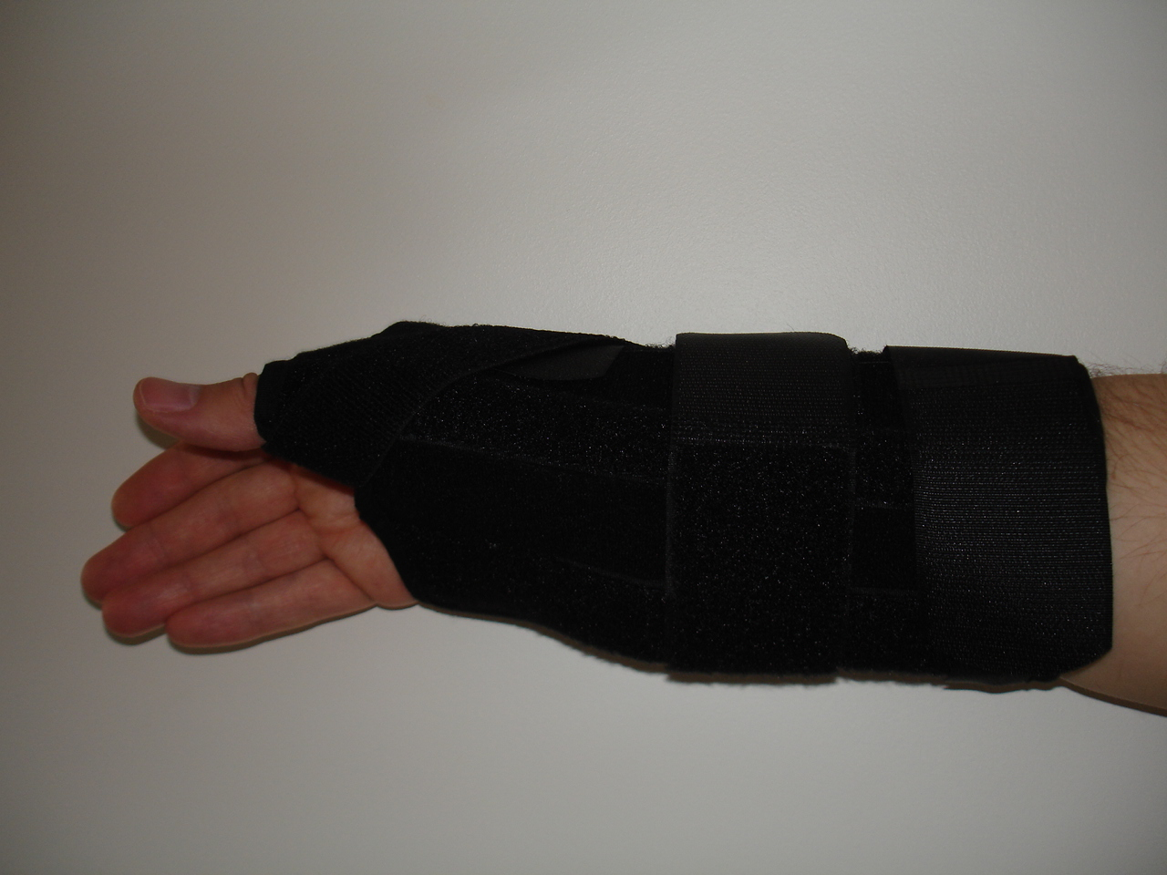 Wrist-thumb splint